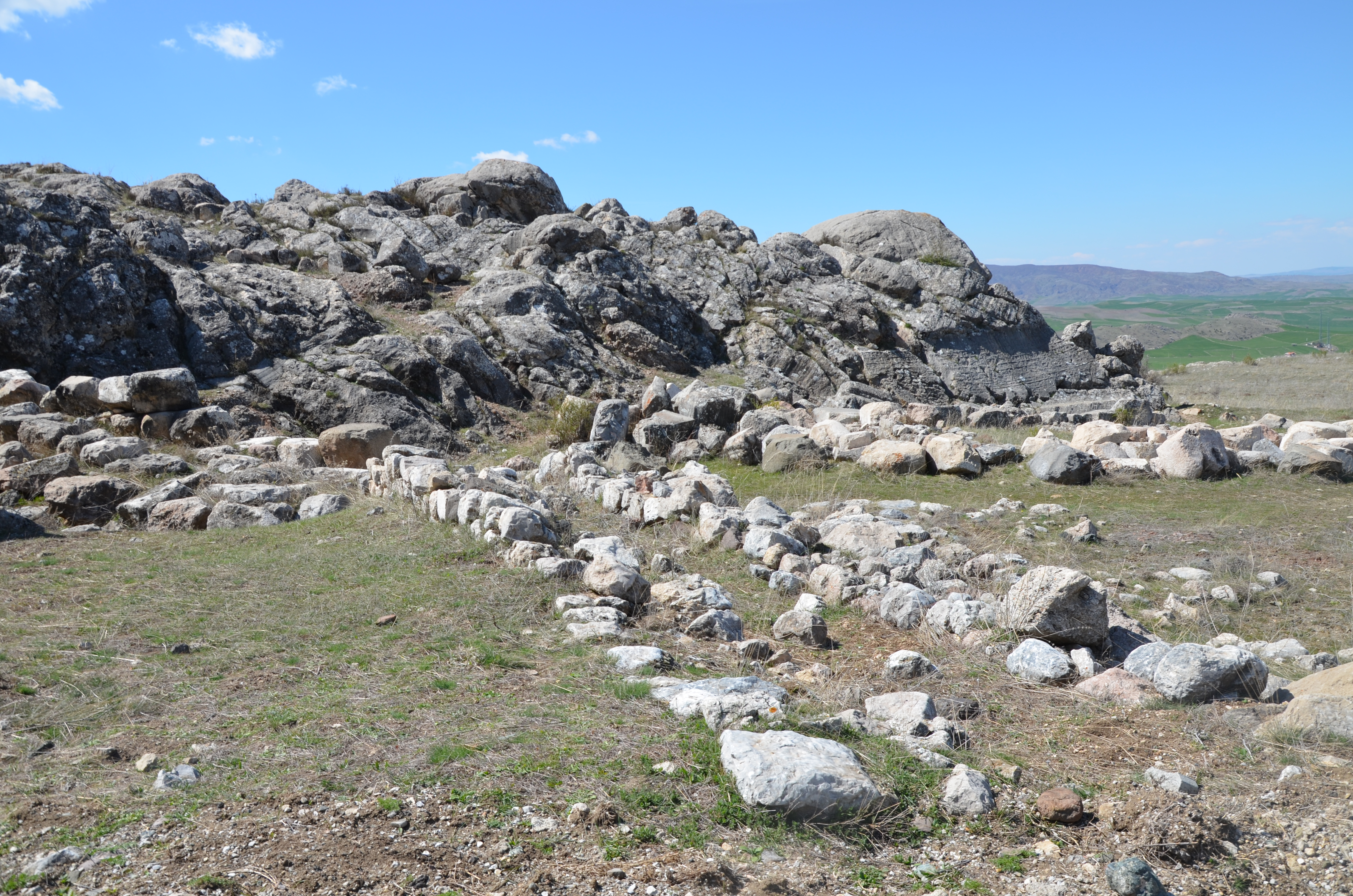 The 8.5m long inscription in Luwian hieroglyphs on the side of the cliff, it has become badly weathered and the content of the text has only been partly deciphered, Hattusa, the capital of the Hittite Empire in the late Bronze Age, Boğazkale, Turkey.